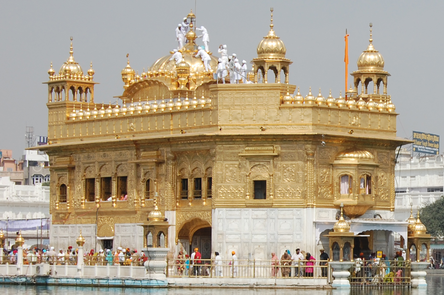 The Harmandir Sahib (Golden Temple) in Amritsar, India.